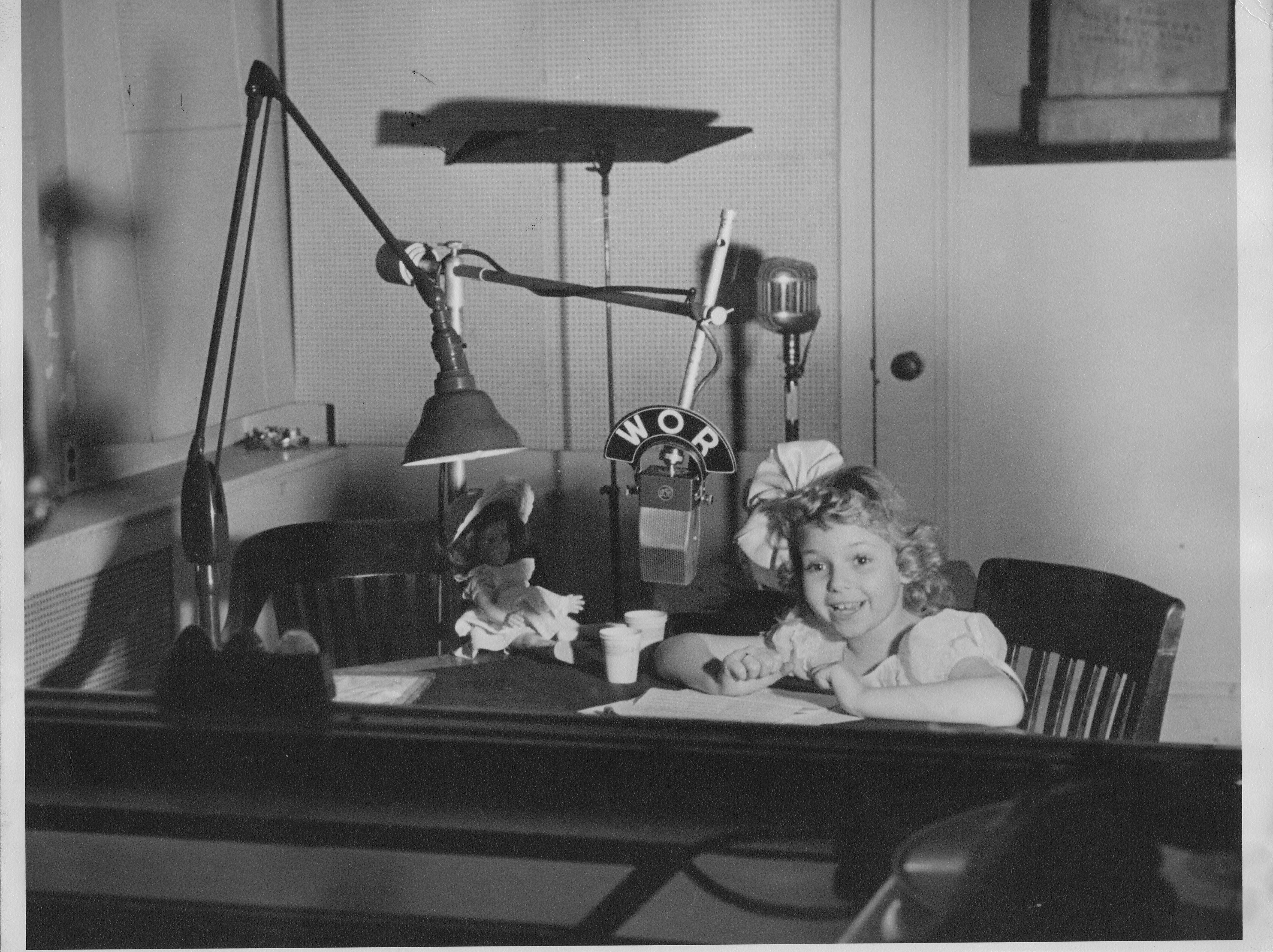 picture of young Robin Morgan in studio for The Robin Morgan Show, 1940s